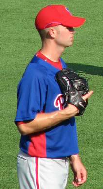 Description J. A. Happ during pregame warm-upsDate 31 July 2008Source I (KV5) (Talk • Phils)) created this work entirely by myself.Author KV5 (Talk • Phils) 15:38, 30 July 2009 . . Killervogel5 . . 212×390 (62 KB) J. A. Happ during pregame warm-ups